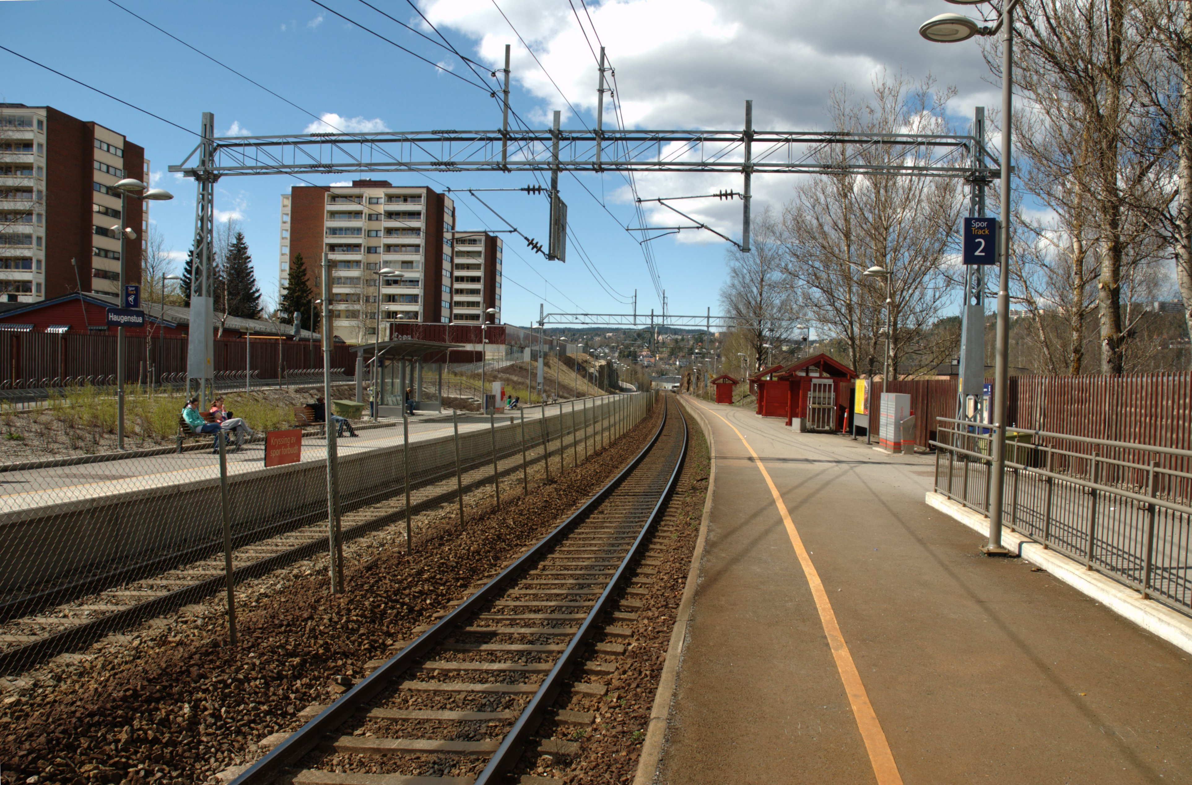 Haugenstua is a railway station on Hovedbanen in Oslo, Norway.